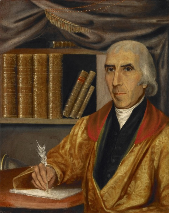 "Jedidiah Morse (1761-1826), B.A. 1783, M.A. 1786," by Samuel Finley Breese Morse, oil on wood, 28 3/8 in. x 22 7/8 in. Courtesy of the Yale University Art Gallery, Yale University, New Haven, Conn.